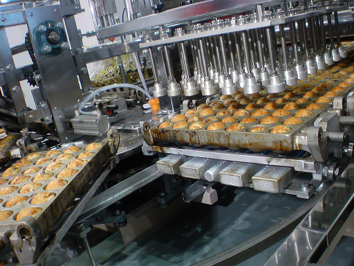 Optiprogram